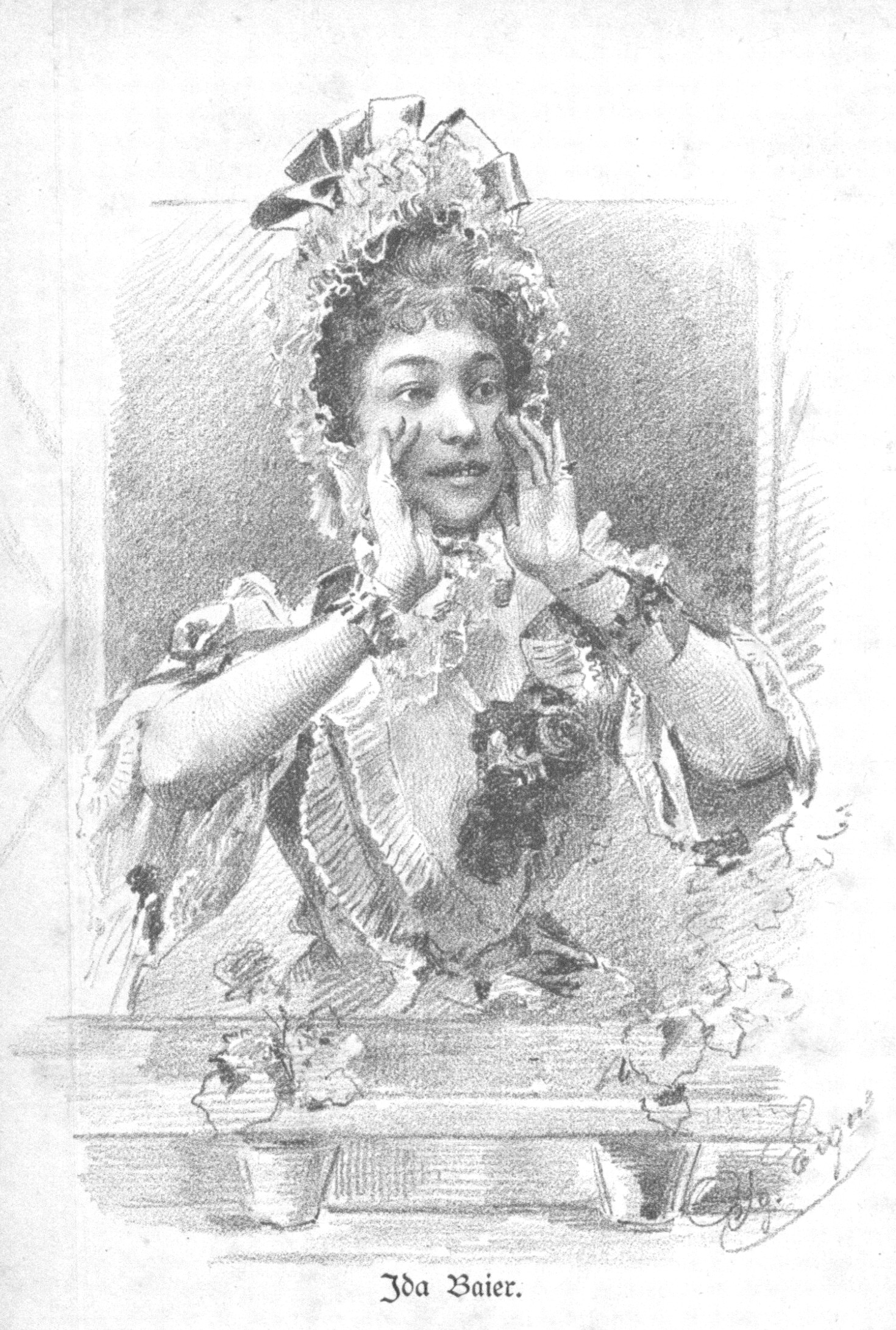 Portrait of Ida Baier (1863-1933), Austrian opera singer.